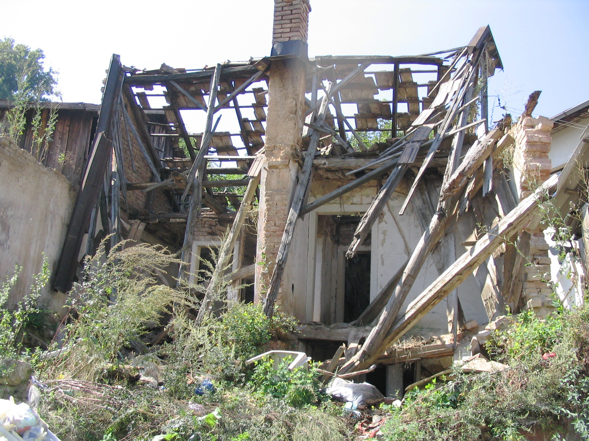 Sarajevo - destroyed building.